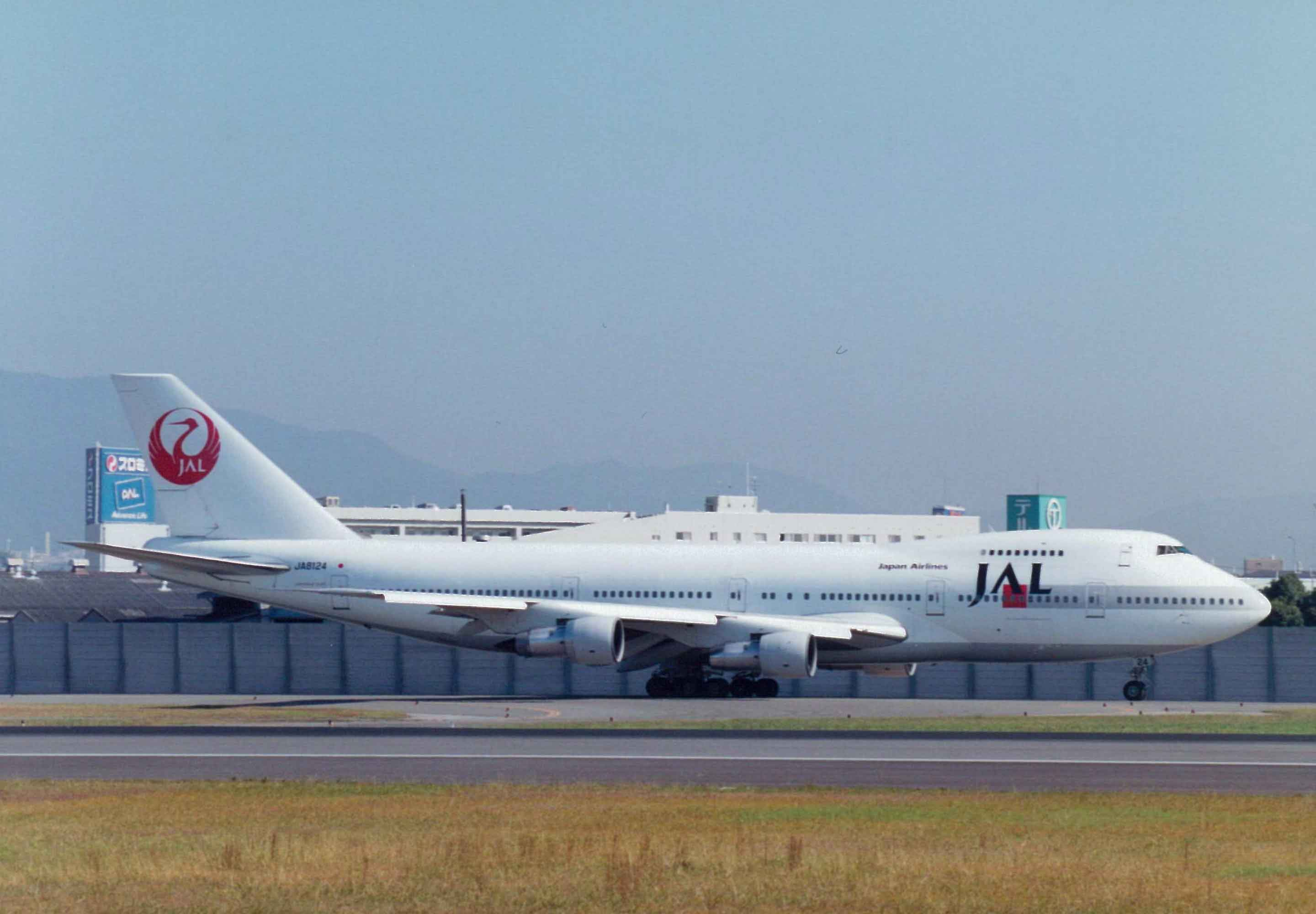 It is Airliners which it photographed in Itami, Osaka Airport.